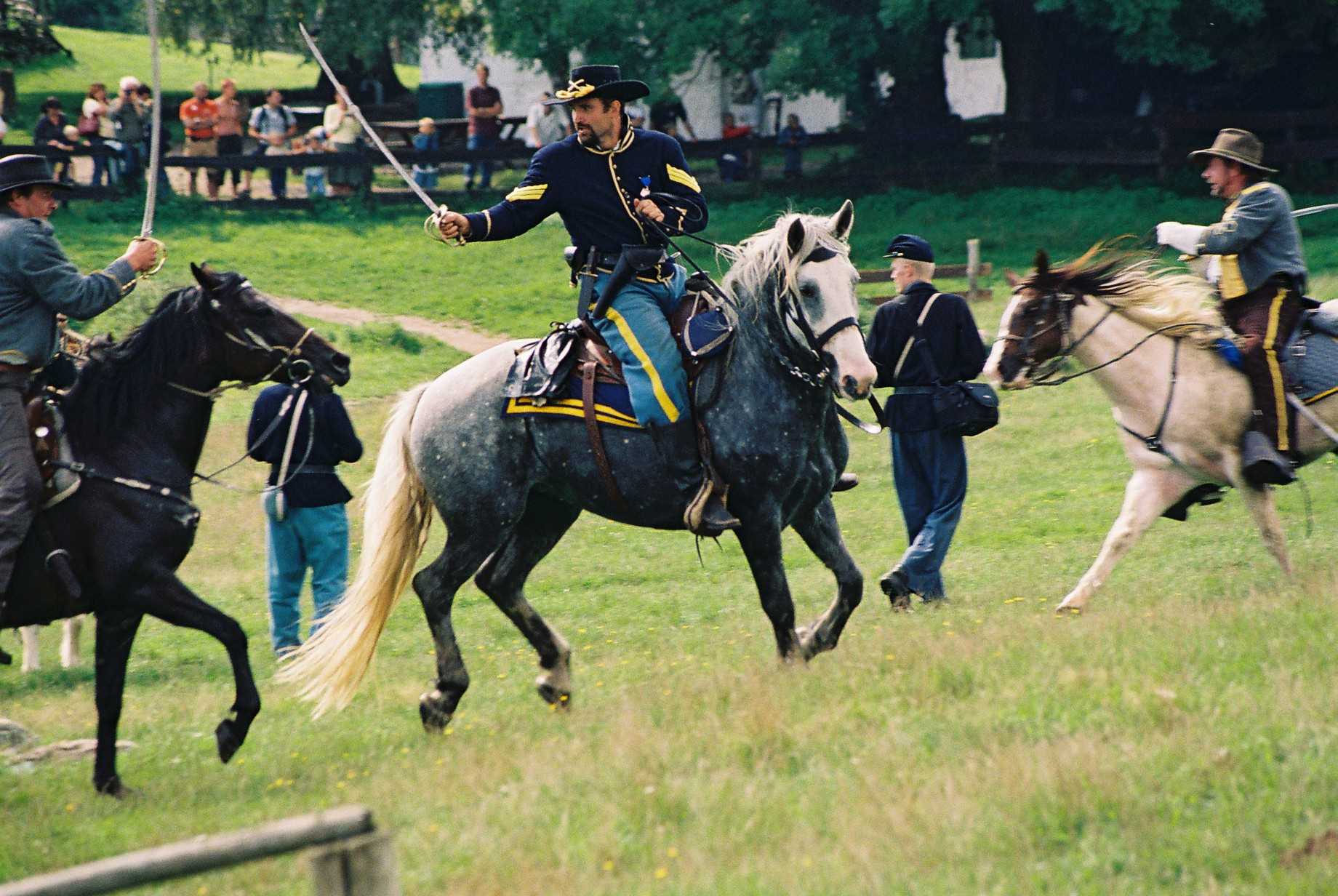 Reconstruction of Battle of Bentonville with reenactors from 2nd US cavalry. A sergent is fighting with the cavalry of the South States